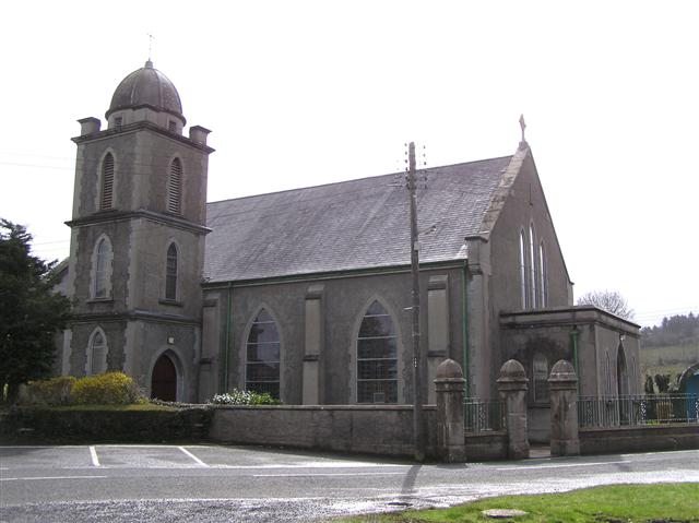 Derrygonnelly RC Church It at the centre of the village